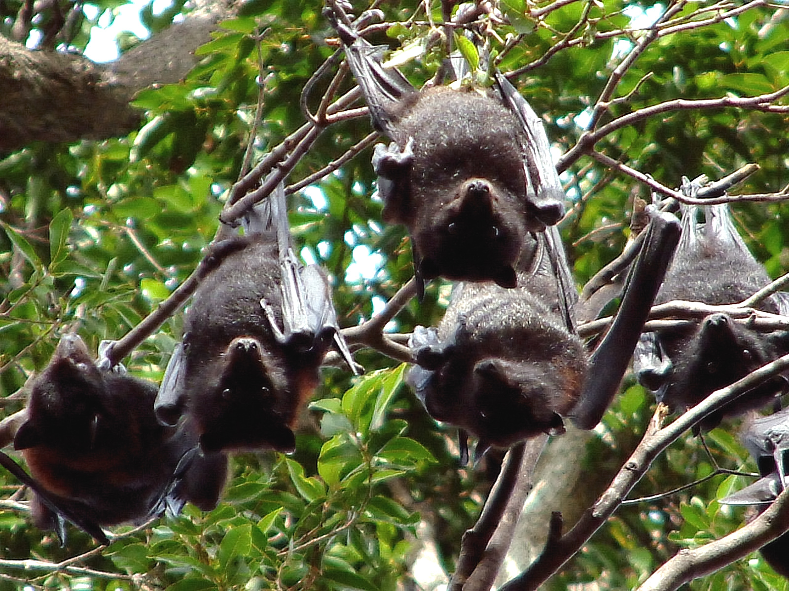 A small group of Black flying-foxes, P. alecto